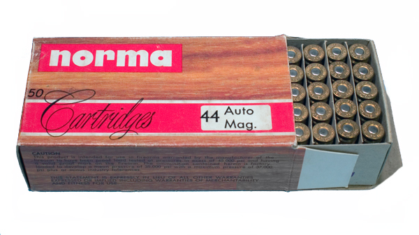 Norma cartridges